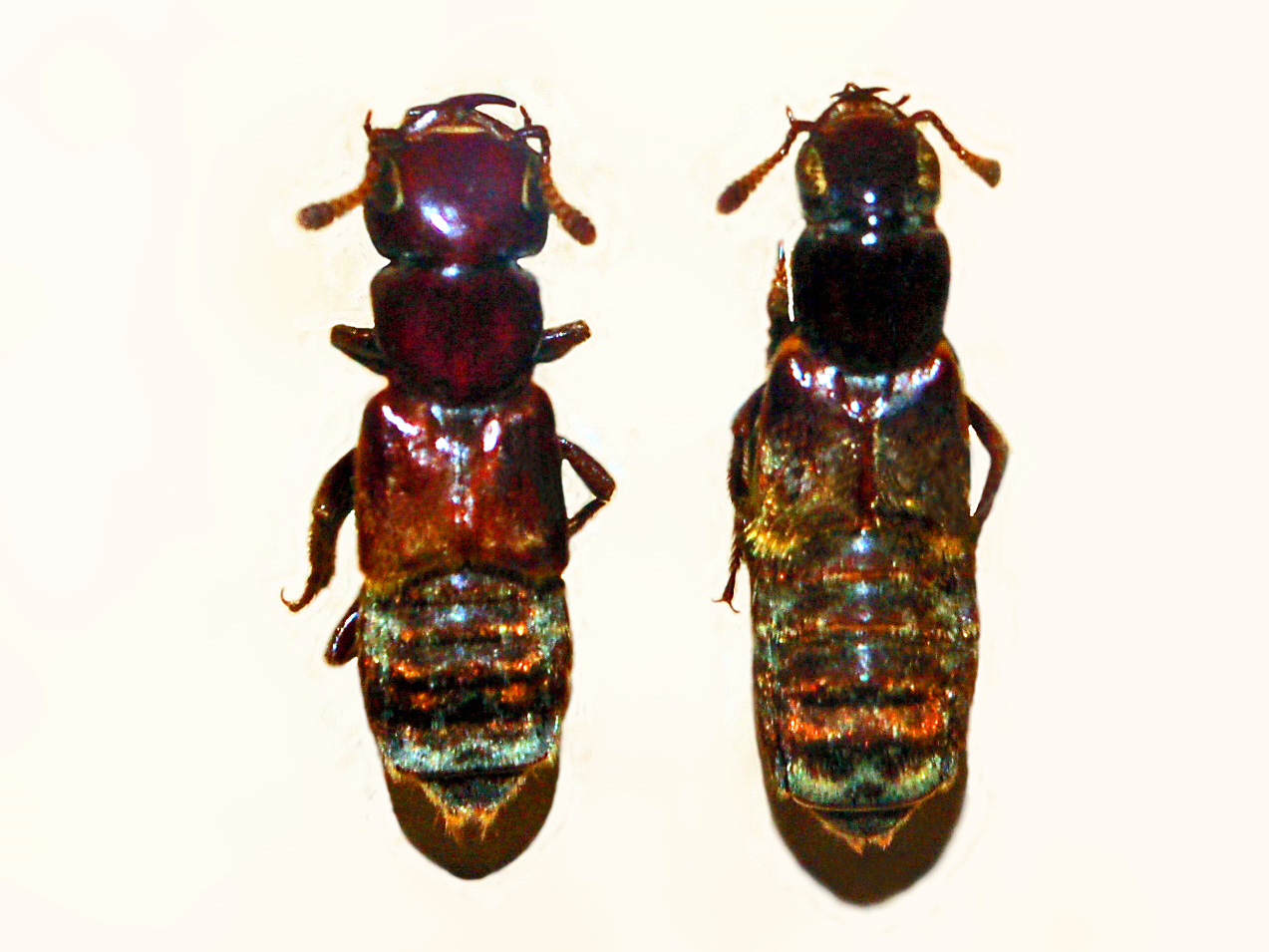 Creophilus variegatus from Peru. Male and female.